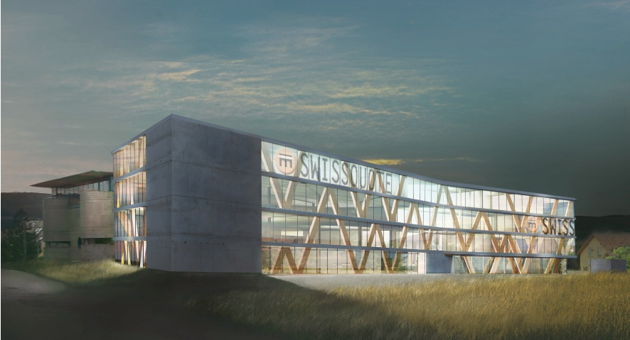 Extension of the headquarters in Gland/VD. The construction will be completed in 2013.